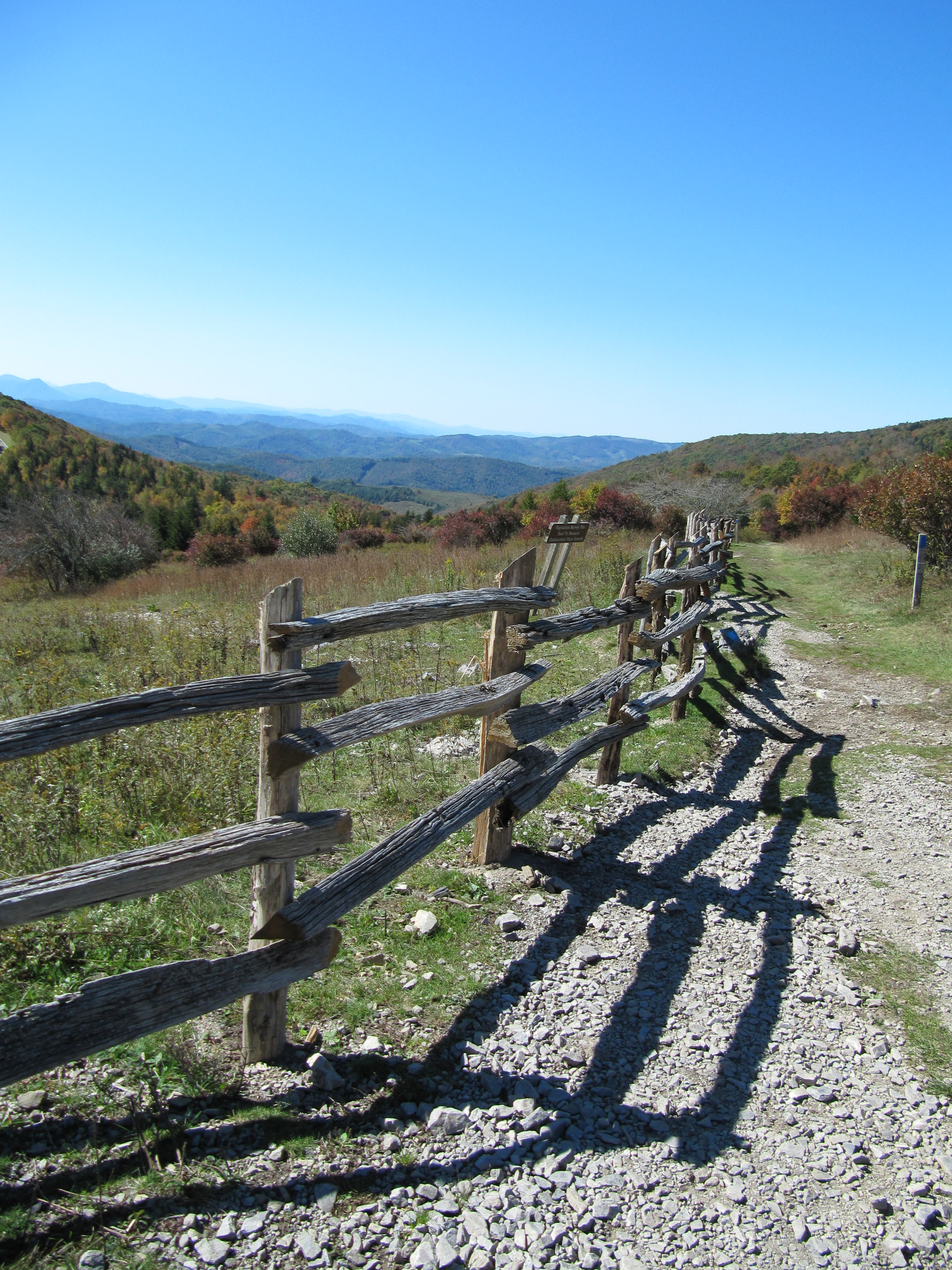 Taken 10/05/2011 along the Rhododendron Trail in Grayson Highlands State Park. ksu